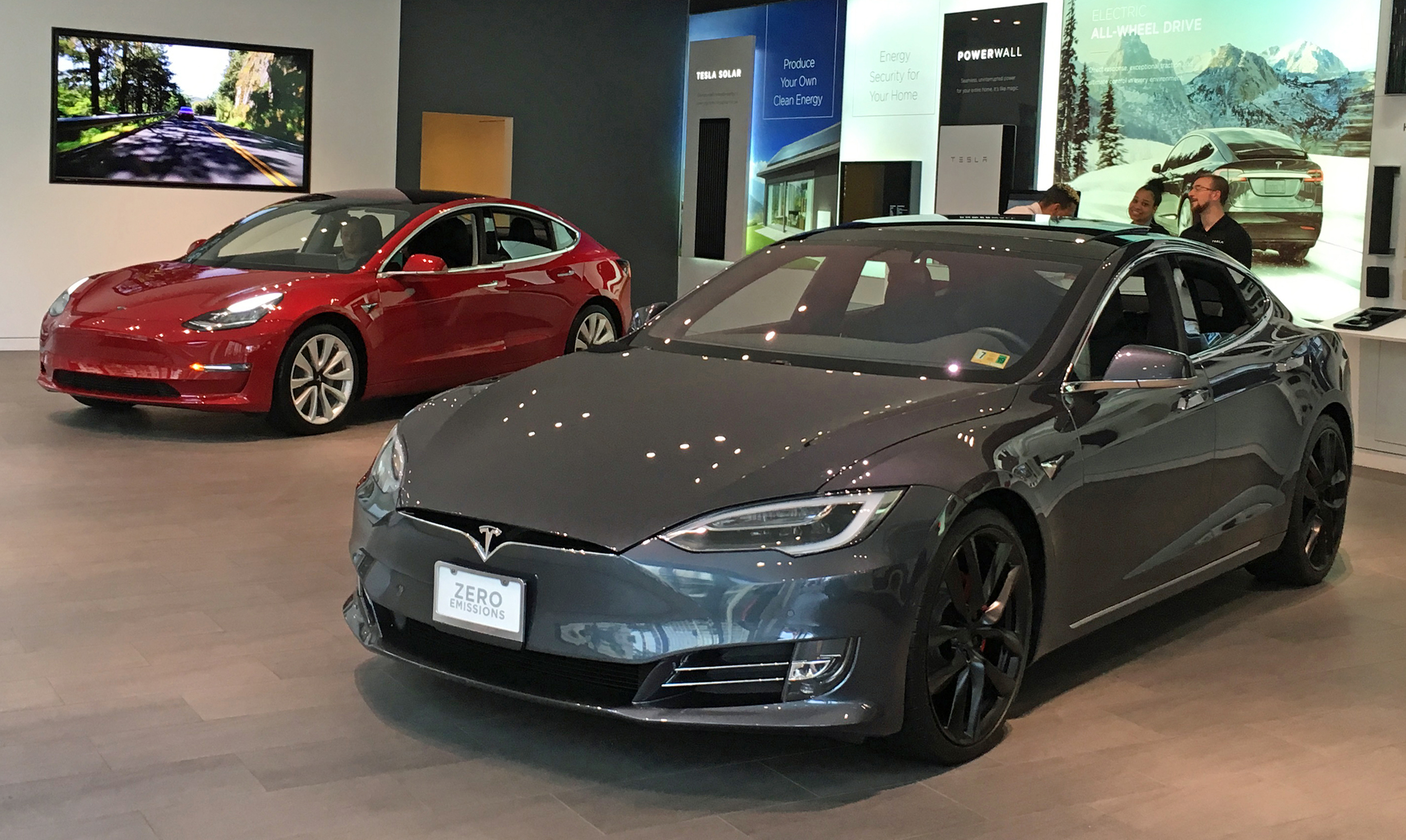 Tesla Model S and Model 3 exhibited at Tesla Store in Washington D.C.